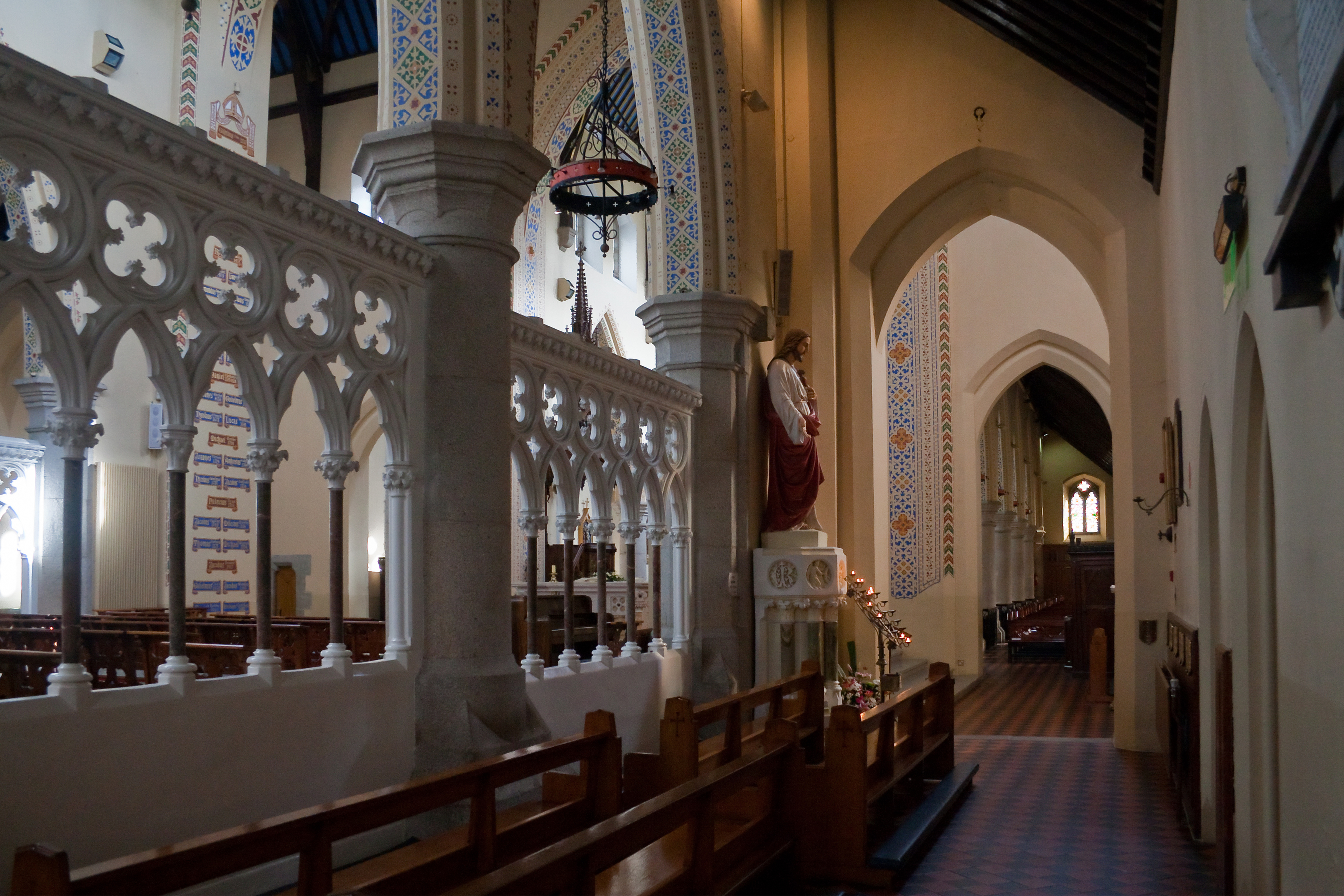 View of the choir and the west aisle, looking south-west.